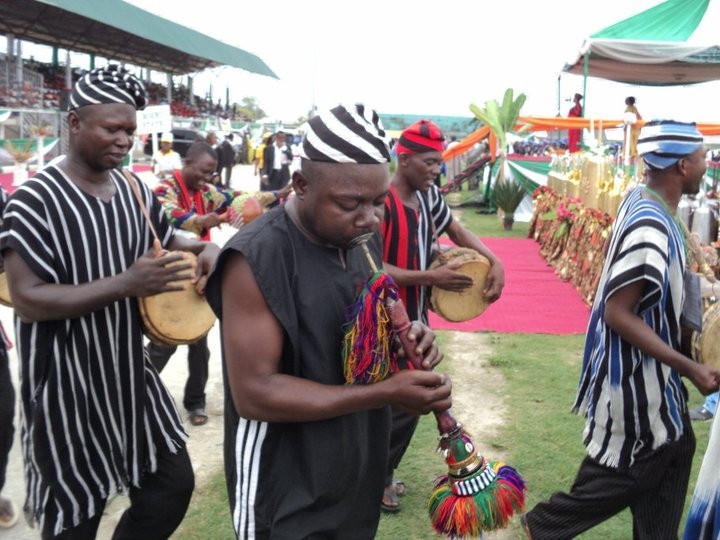 Pictures from the closing ceremony of National Festival of Arts and Culture (NAFEST) 2010 in Uyo, Akwa Ibom state Nigeria. This is an image of Cultural Fashion or Adornment from Nigeria